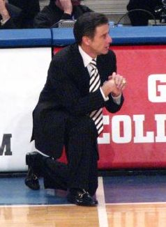 Rick Pitino during a game against West Virginia in the Big East tournament, 2007.